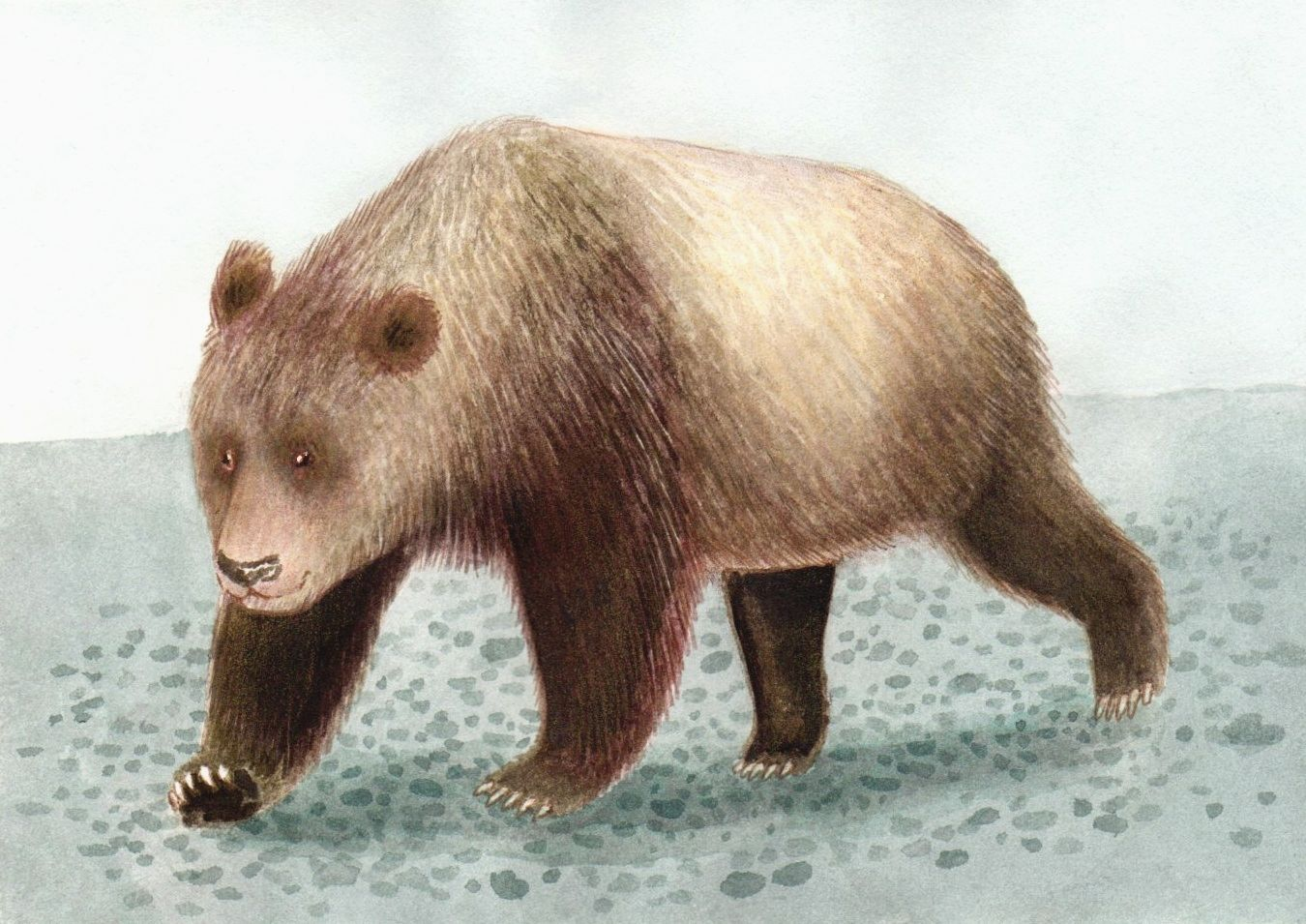 A recreation of the extinct mammal Kretzoiarctos